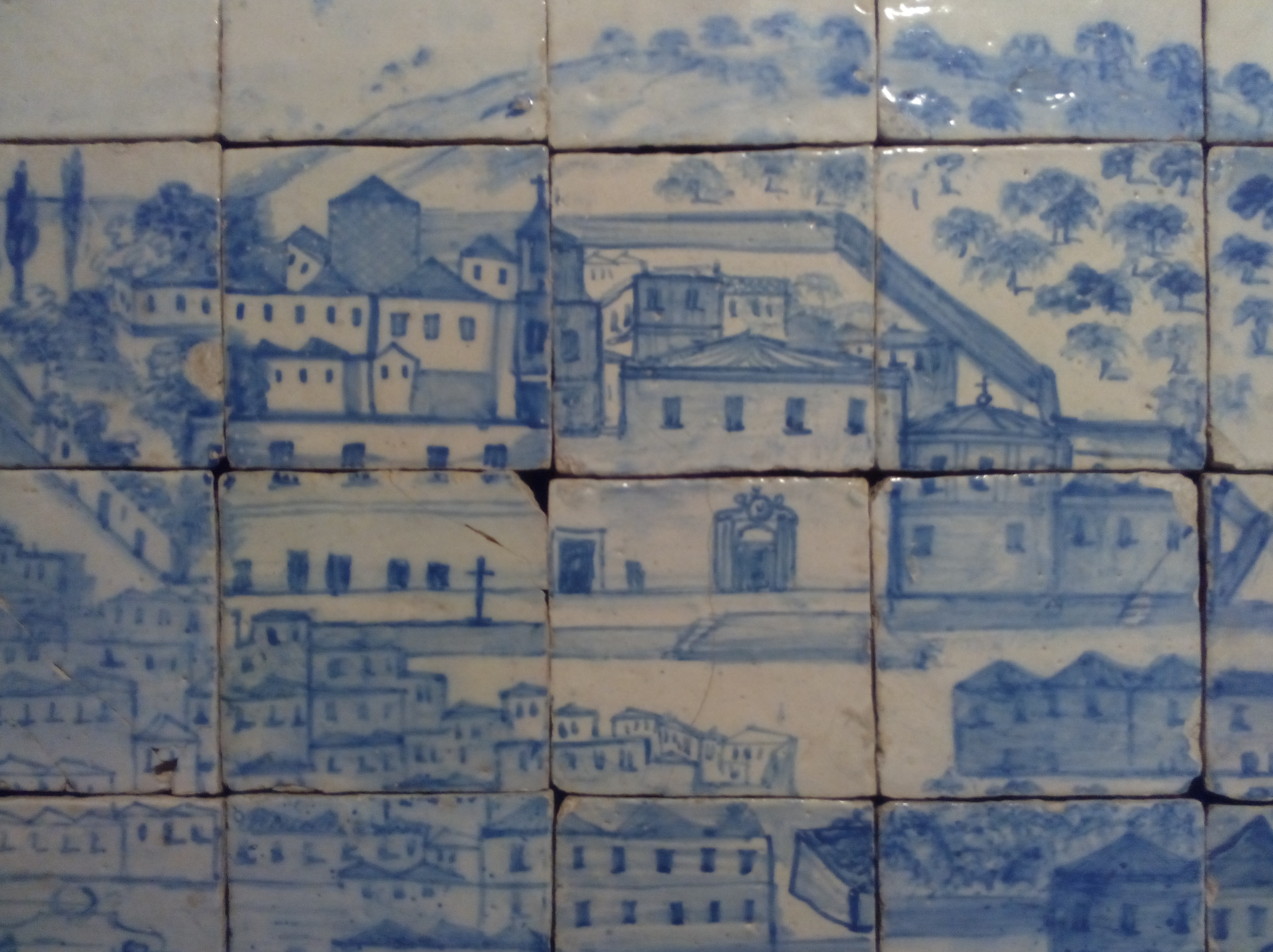 Depiction of the Monastery of the Italian Capuchins (Mosteiro dos Barbadinhos Italianos), in Lisbon, in an early 18th-century tile panel depicting a view of city. Currently in the National Tile Museum (Museu Nacional do Azulejo), in Lisbon, Portugal.